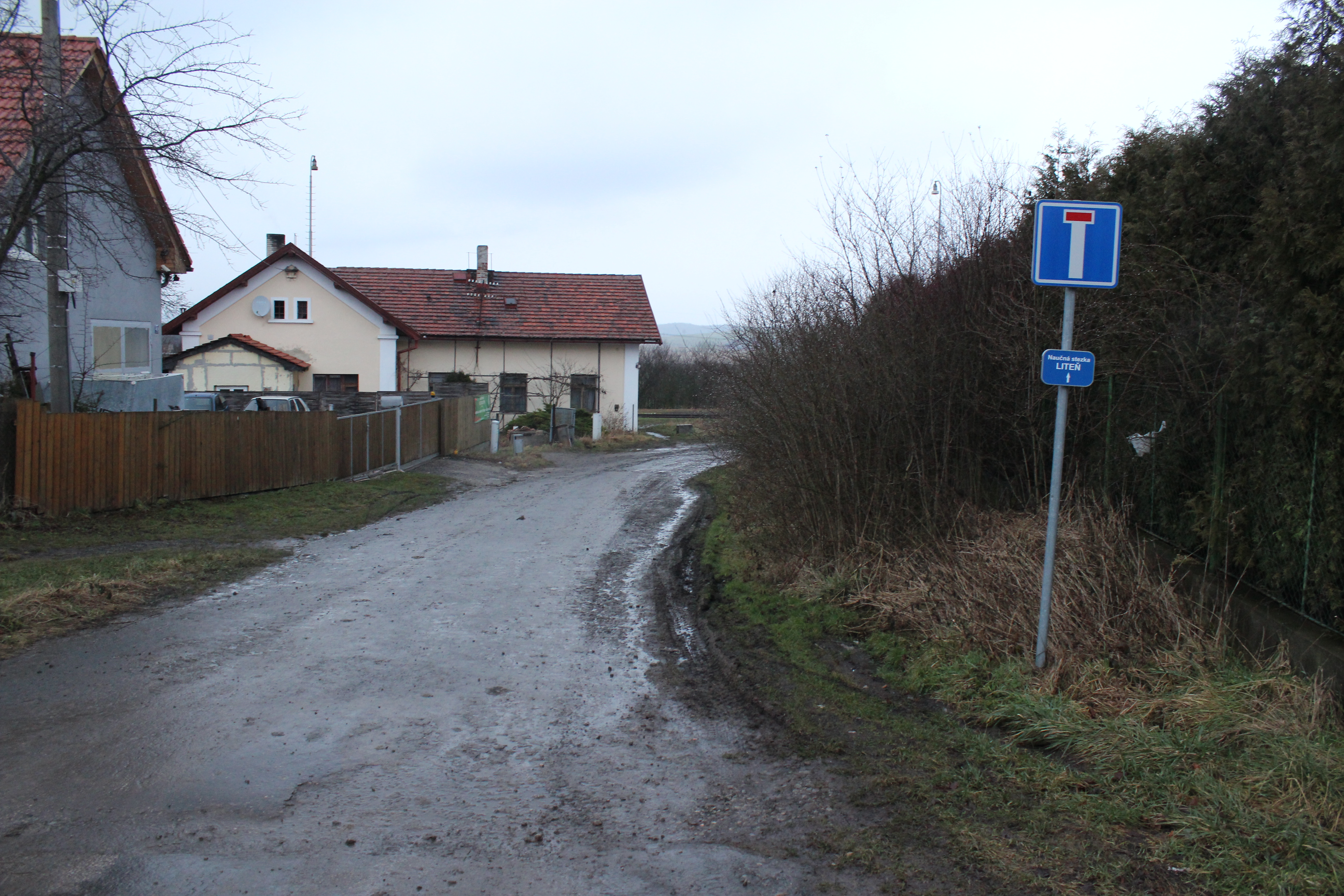 Liteň educational trail